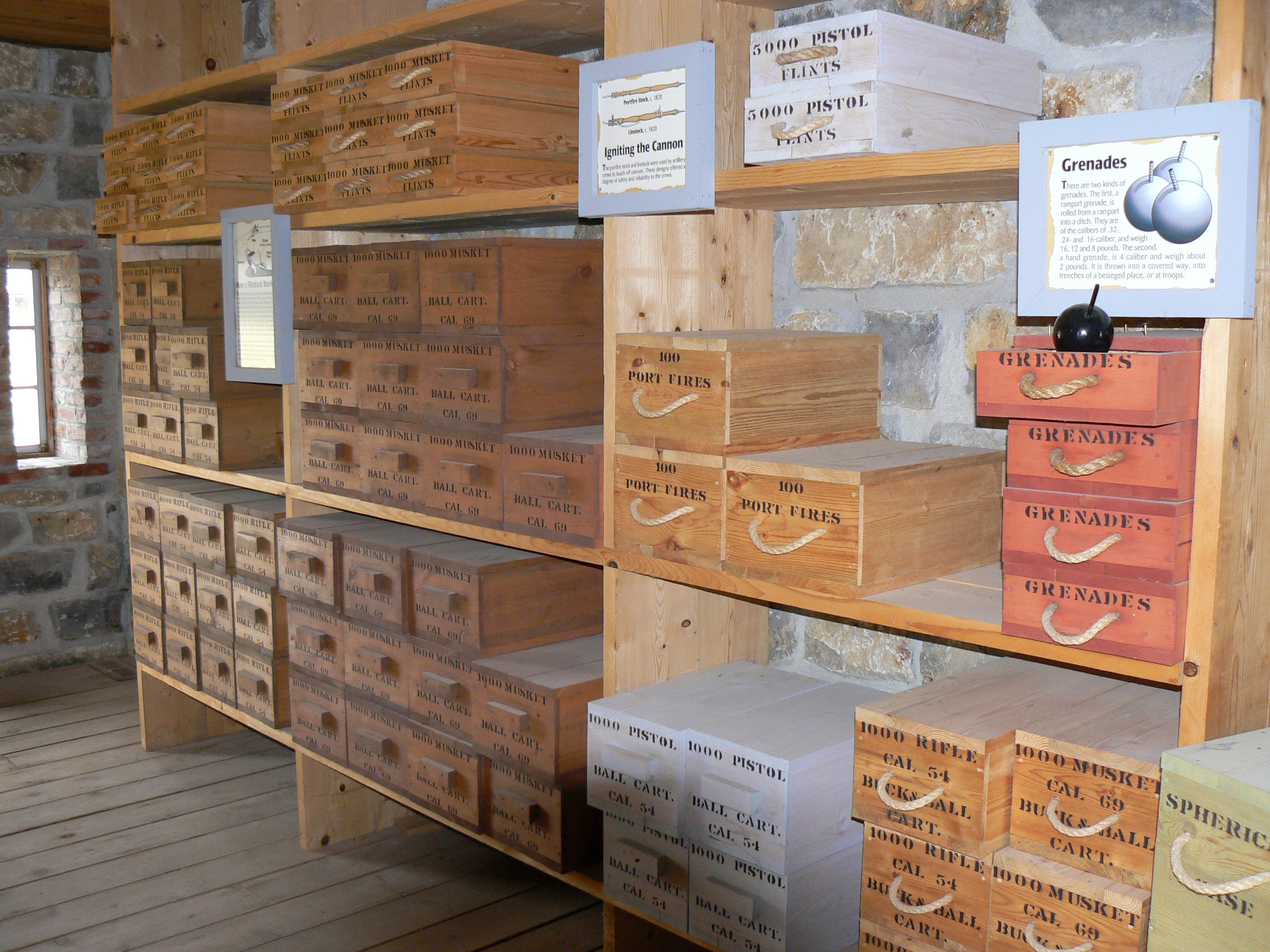 Interior of powder magazine at Fort Atkinson, Nebraska